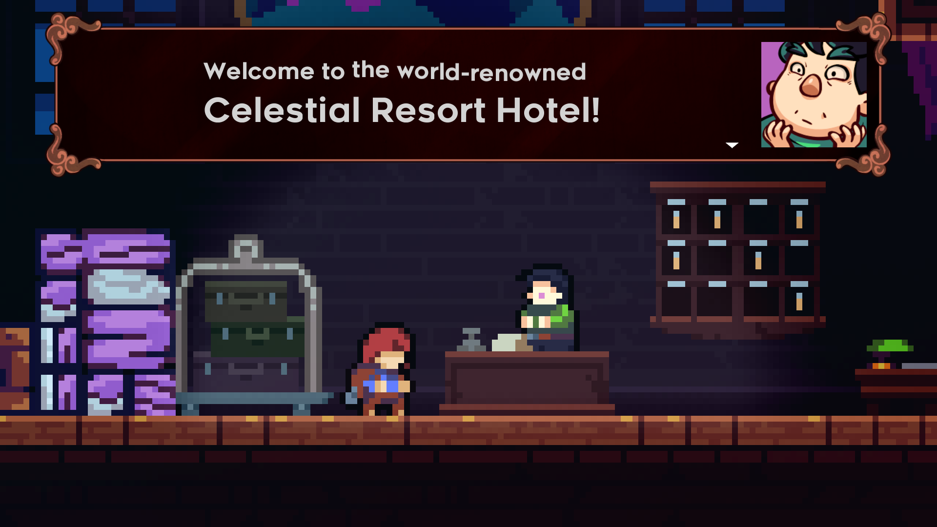 Screenshot of the 2018 video game Celeste